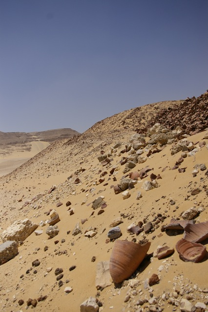 Abydos, Umm el-Qa'ab = mother of pots